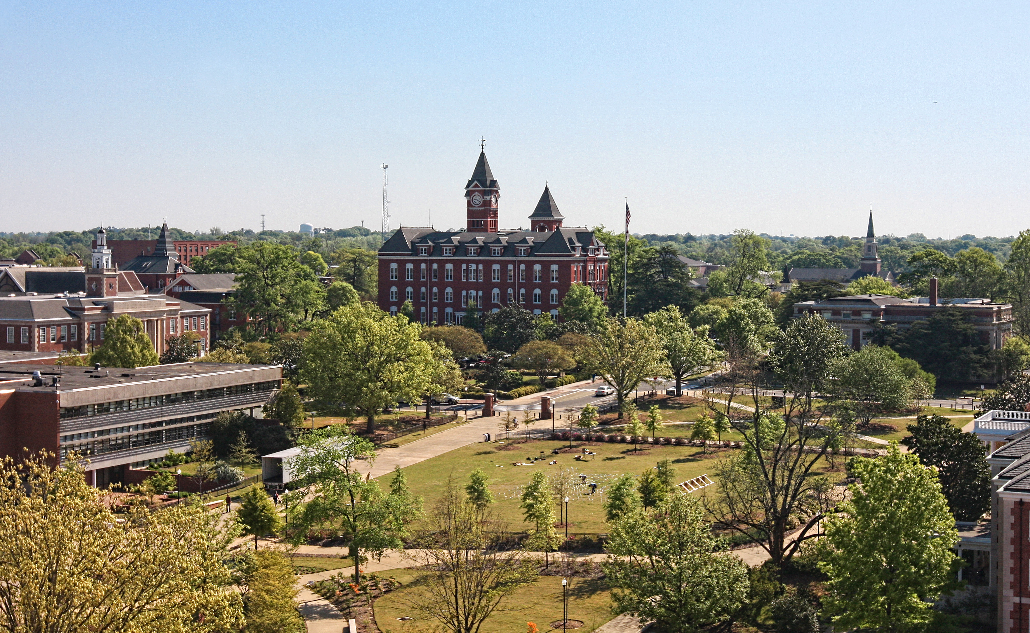 Samford Hall predominant building, located at Auburn University in Auburn, Alabama, USA.